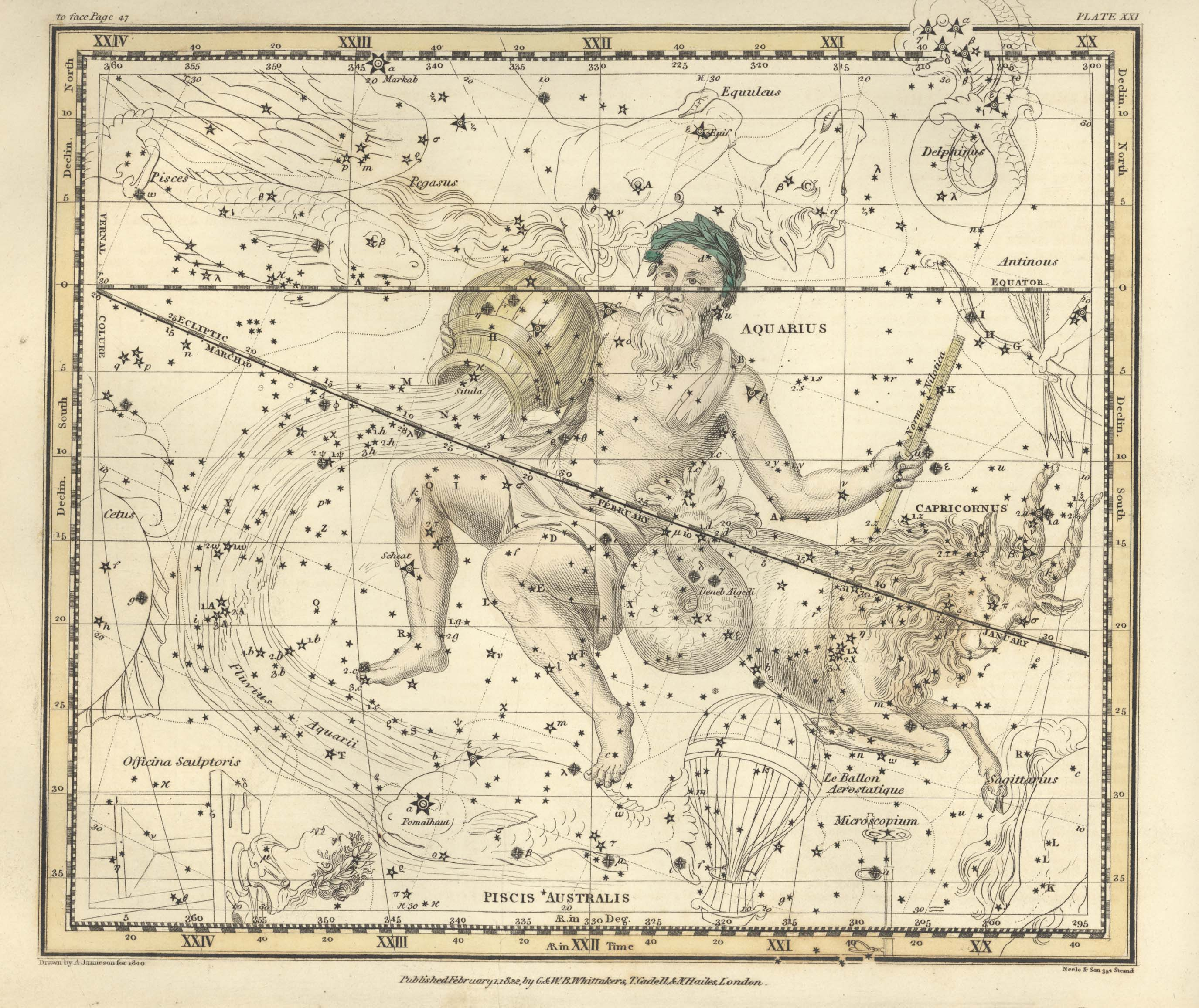 Plate 21 from A celestial atlas comprising a systematic display of the heavens in a series of thirty maps illustrated by scientific description of their contents and accompanied by catalogues of the stars and astronomical exercises